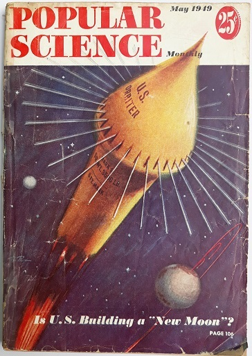 Magazine cover of Popular Science May 1949 issue. The image depicts the concept of a rocket lifting an artificial satellite into space.